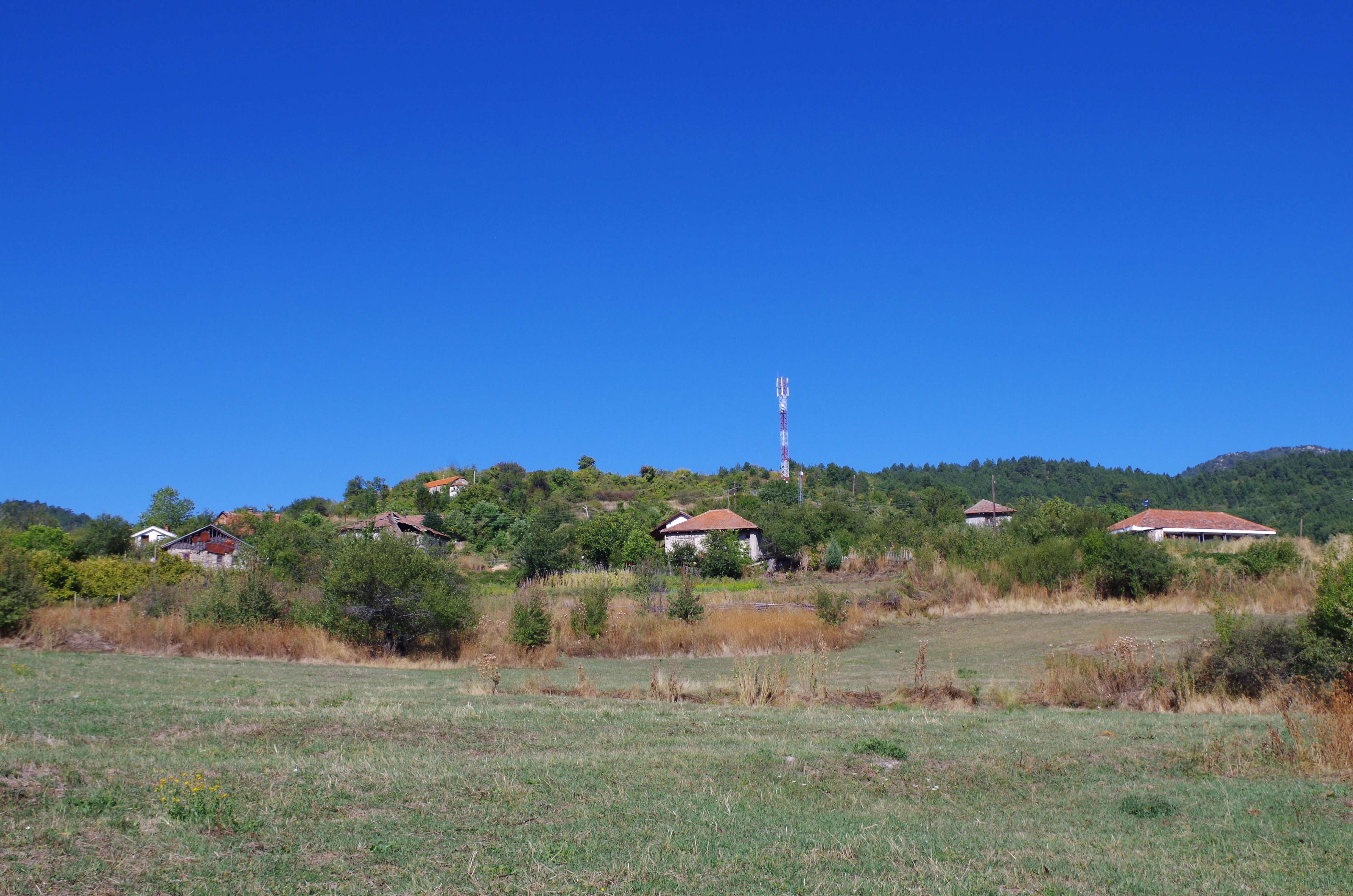 View of the village of Rožden